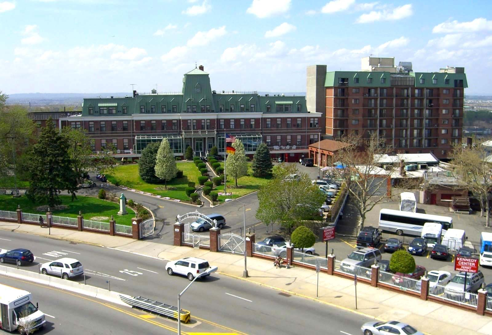 Schuetzen Park in North Bergen, New Jersey, as seen from the roof of the Kennedy Center in Union City, New Jersey. Many thanks to Treeco, who owns the property, and superintendent John Moran, for allowing me access to the Kennedy Center's roof. Photographed by Luigi Novi. This photo is not in the public domain. It may, however, be used, modified and published for any purpose, free of charge, only if an easily visible credit to the photographer is placed near the photo in each instance in which it is used. (See licensing information below.) Publication of this photo without this proper attribution constitutes copyright infringement. For more information on my photos, you can contact me here.